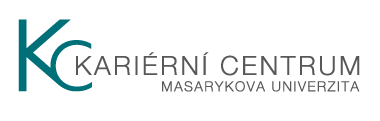 The logo of Career Centre of Masaryk University